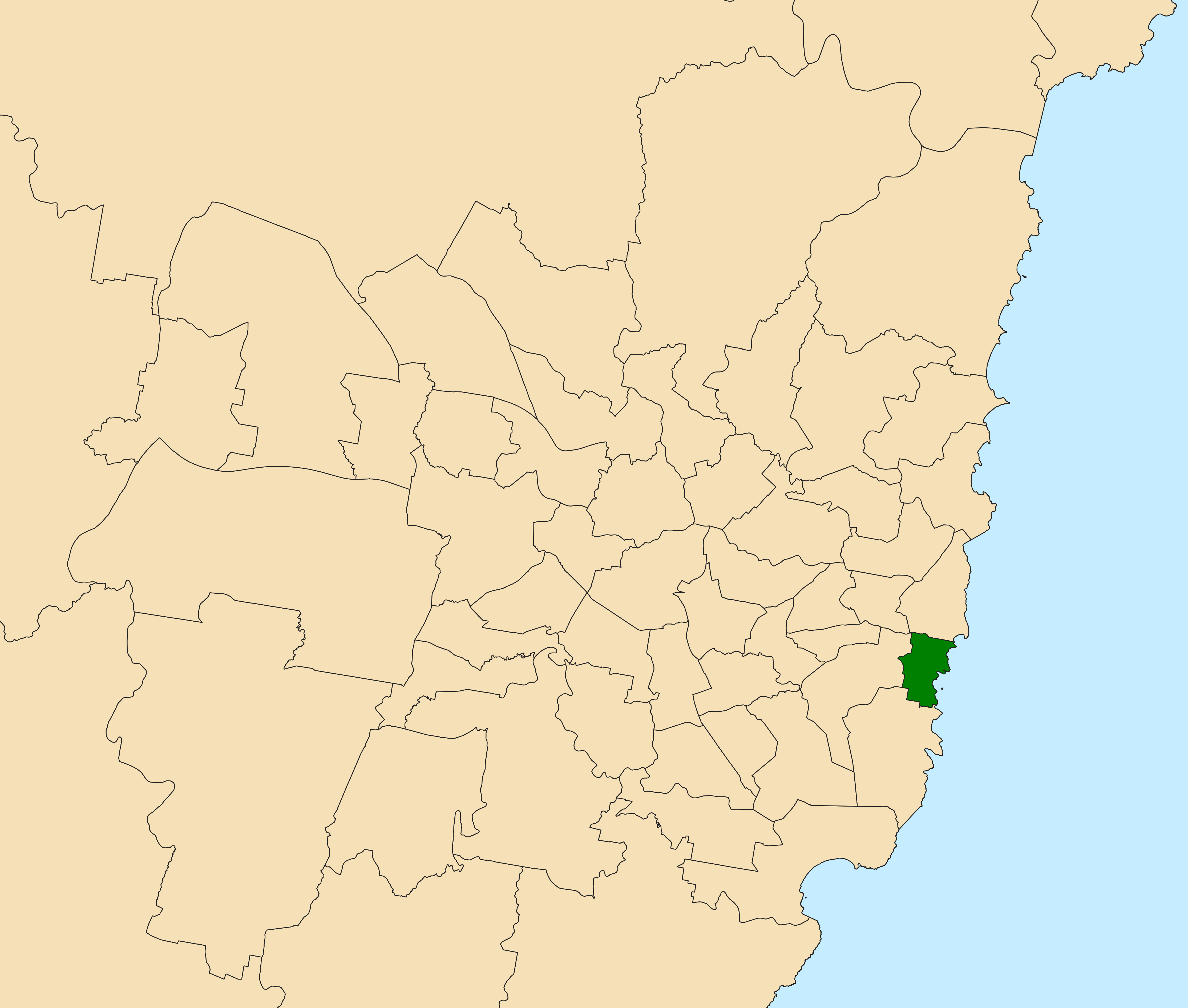 Location of the state electoral district of Coogee (dark green) in the metropolitan Sydney area as of the 2019 New South Wales state election. Incorporates or developed using Administrative Boundaries ©PSMA Australia Limited licensed by the Commonwealth of Australia under Creative Commons Attribution 4.0 International licence (CC BY 4.0).